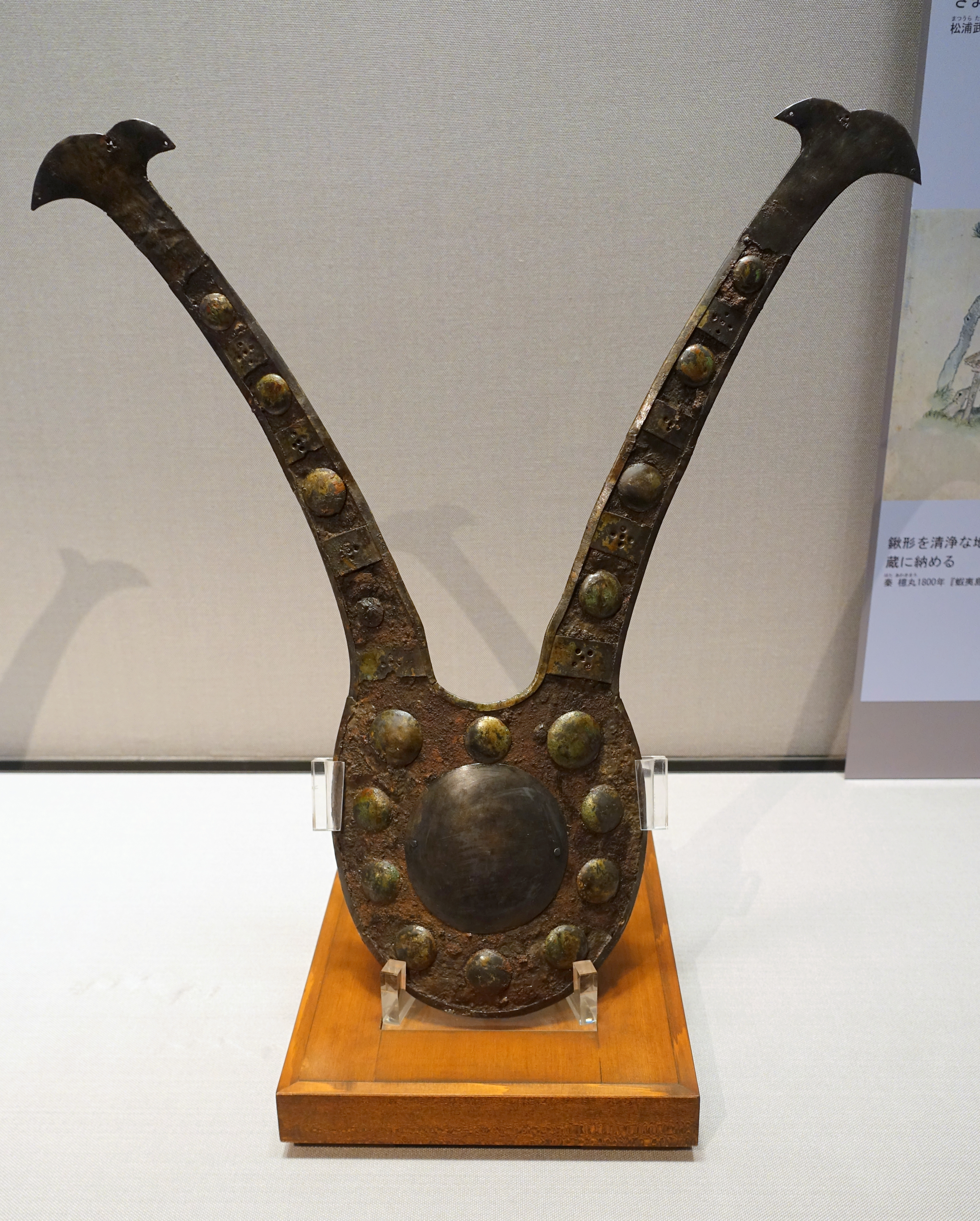 Exhibit in the Tokyo National Museum, Tokyo, Japan. This work is old enough so that it is in the public domain.